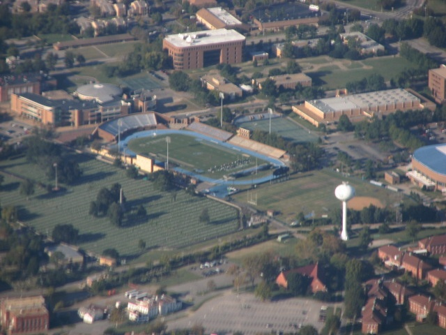 Aerial view of the campus of Hampton University, taken out of a plane probably on a flight from Virginia to New York